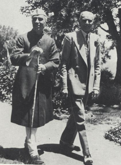 Jawaharlal Nehru with M.A. Jinna, Simla, 1946